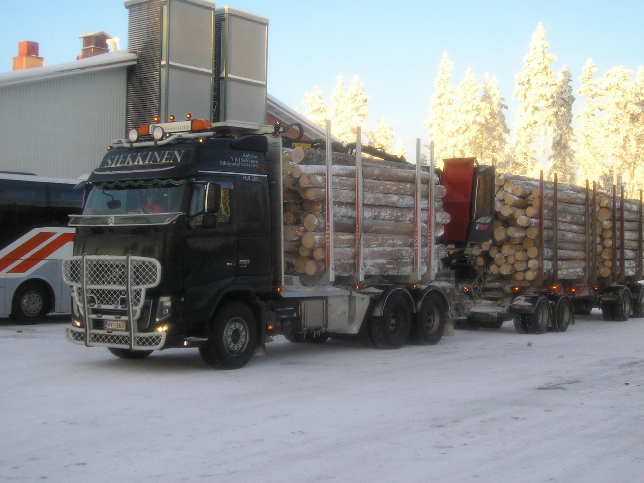 Volvo FH16 lumber truck in Pyhäjärvi, Finland